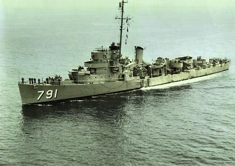 The U.S. Navy destroyer escort USS Maloy (DE-791) heading in or out of New London, Connecticut (USA), after she received a variable depth sonar in 1956.